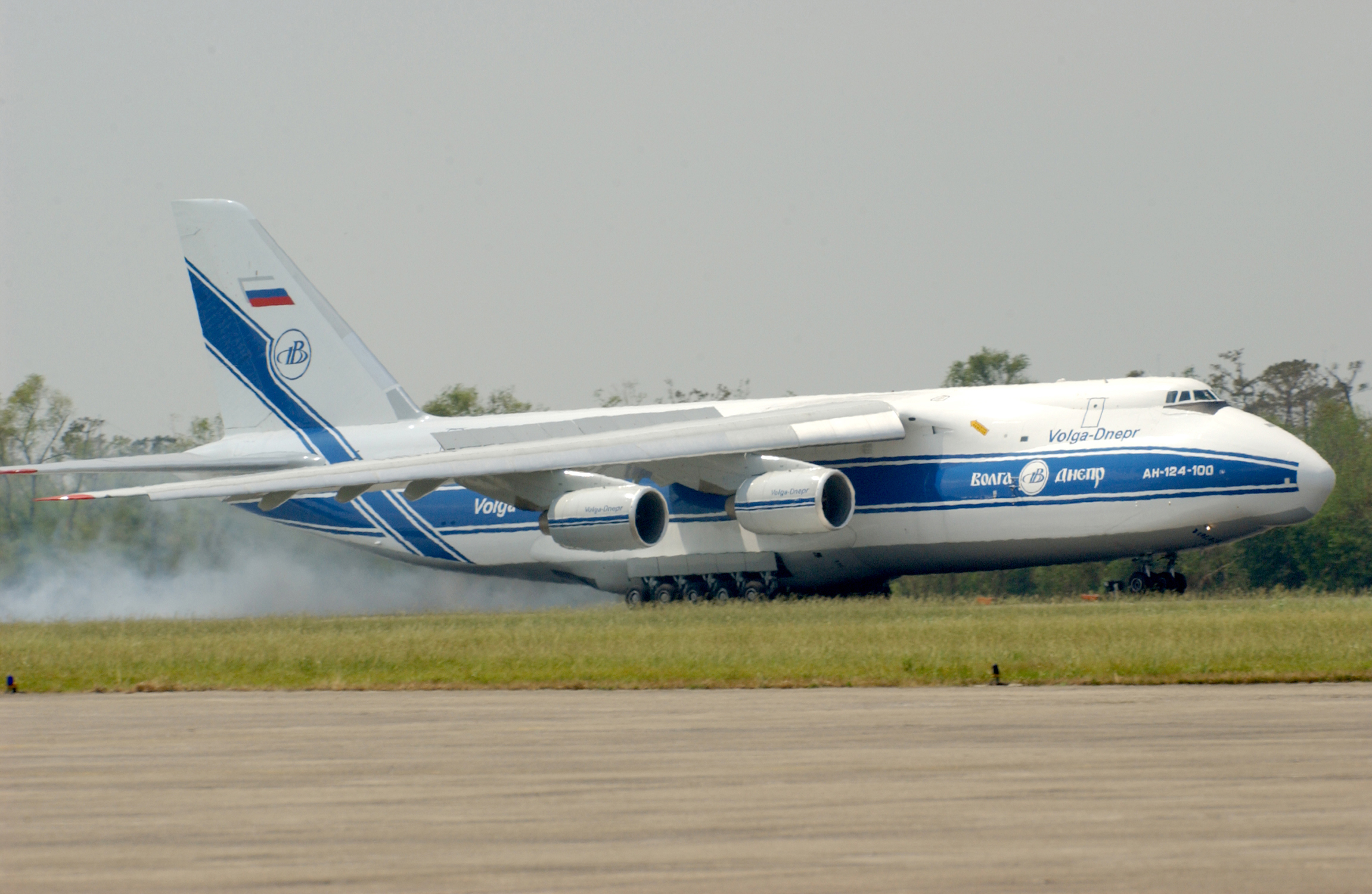 New Orleans (Sept. 12, 2005) - A Russian AN-124 Condor aircraft lands at Naval Air Station Joint Reserve Base, New Orleans from the Netherlands to deliver a diesel powered water pump in support of Hurricane Katrina relief efforts. The Navy's involvement in the Hurricane Katrina humanitarian assistance operations are led by the Federal Emergency Management Agency (FEMA), in conjunction with the Department of Defense. U.S. Navy photo by Photographer's Mate 2nd Class Dawn C. Morrison (RELEASED)